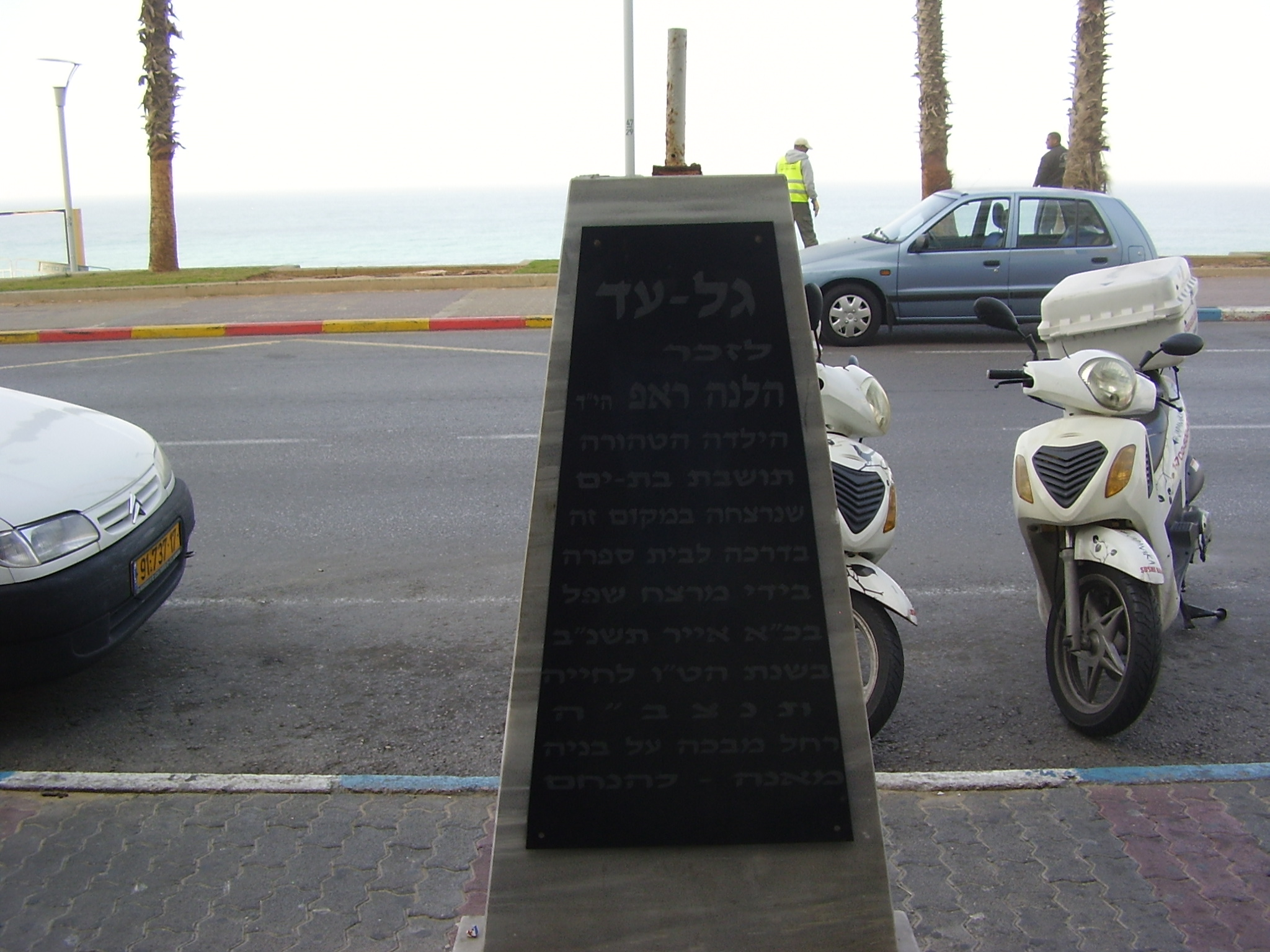 memorial to helena rapp in bat yam